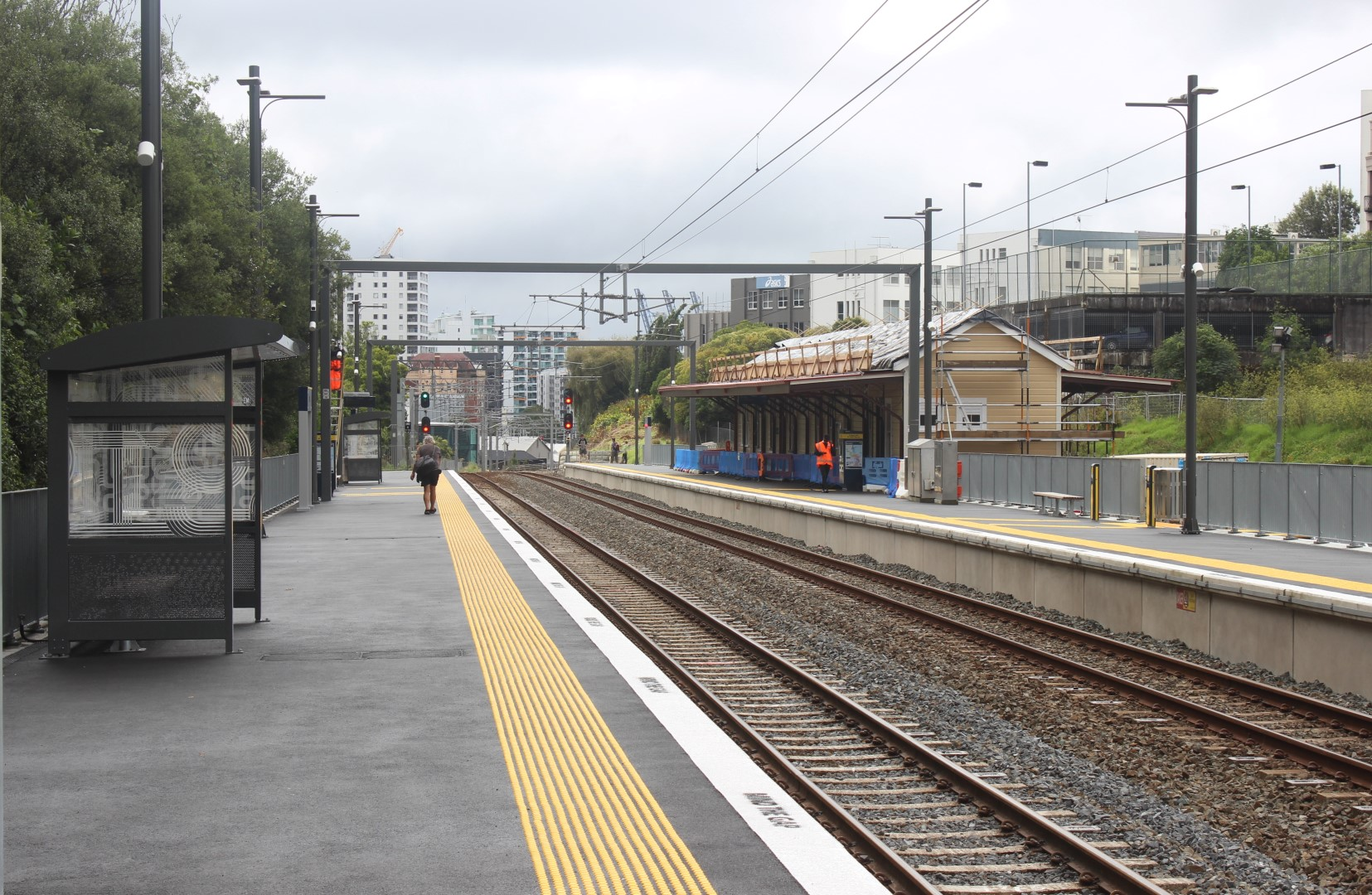 Parnell Railway Station viewed from the citybound platform, on the first day of services on 12 March 2017